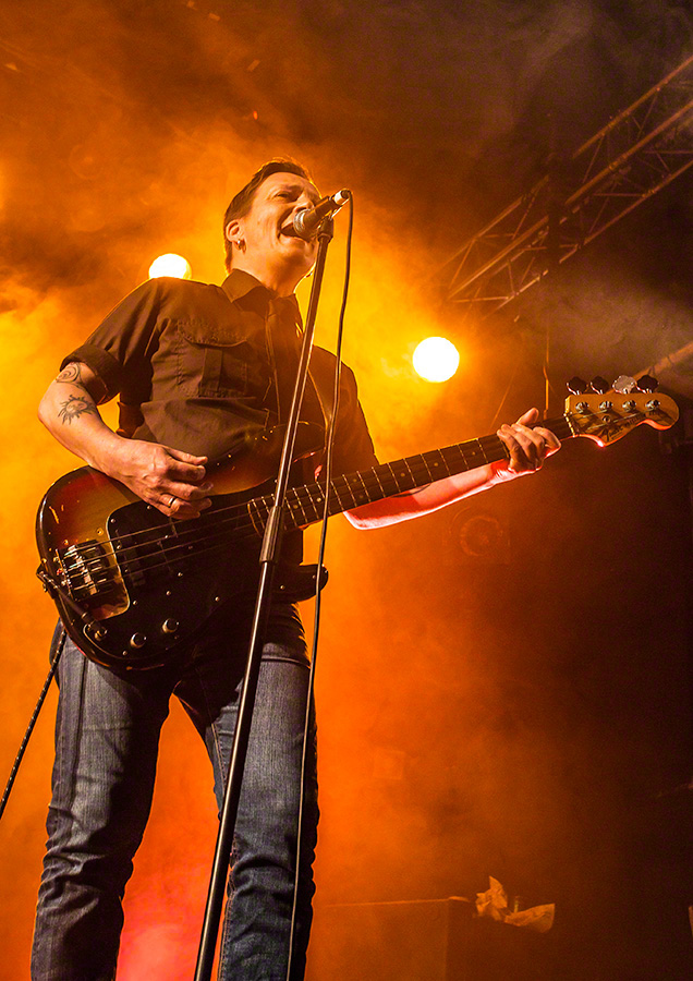 Frank Hammersland performs at a concert with Pogo Pops at Parkteatret in Oslo. Lineup: Frank Hammersland (bass and vocal) Viggo Krüger (guitar) Nikolai Hamre (drums)